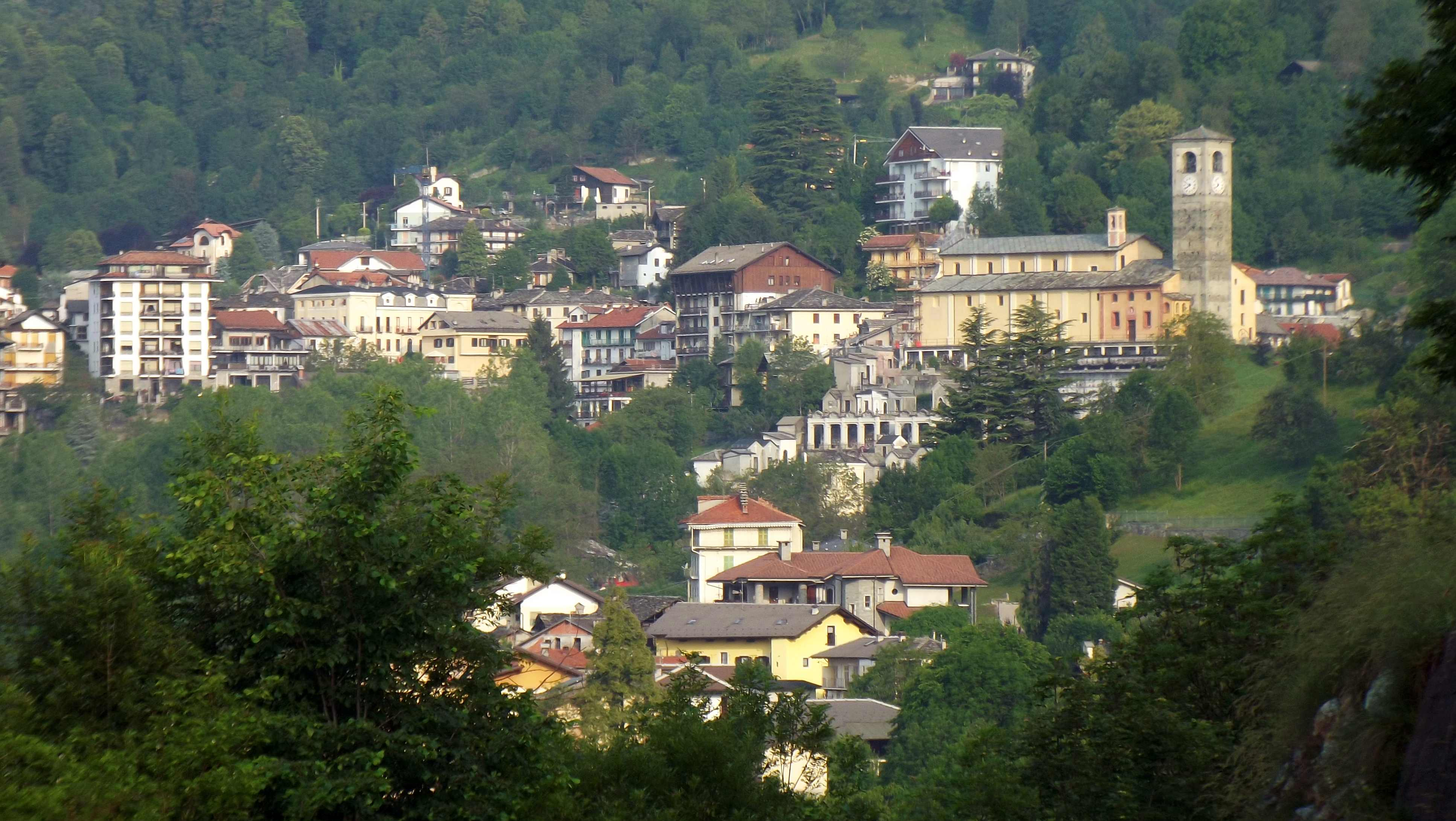 Viù (TO, Italy): panorama from porte di Viù